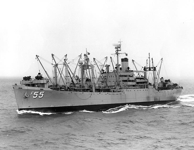 The U.S. Navy Alstede-class stores ship USS Aludra (AF-55) underway at sea, 17 September 1954.